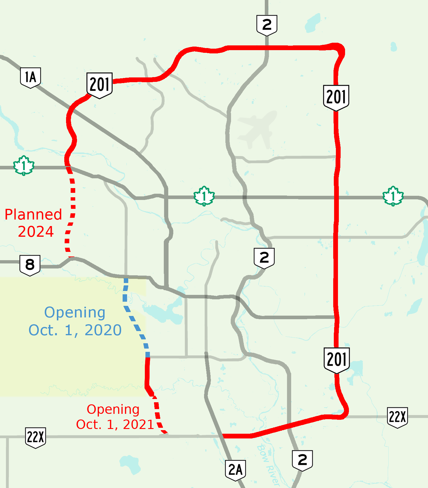 Stoney Trail - created with OpenStreetMap